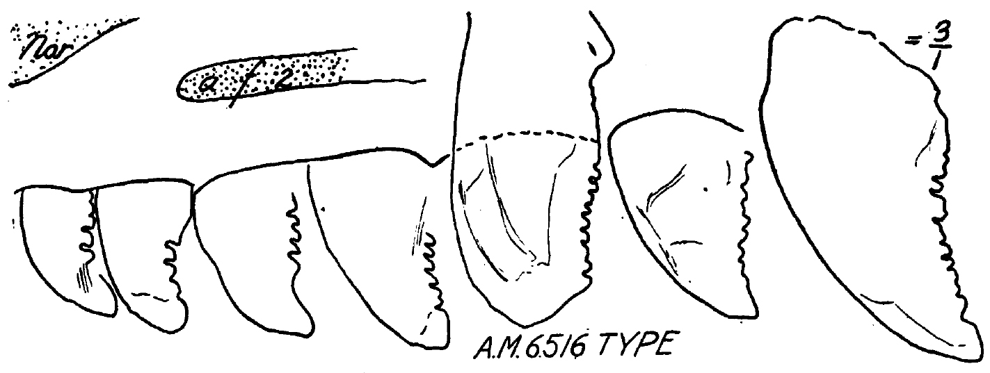 Saurornithoides holotype maxillary teeth AMNH 6516.